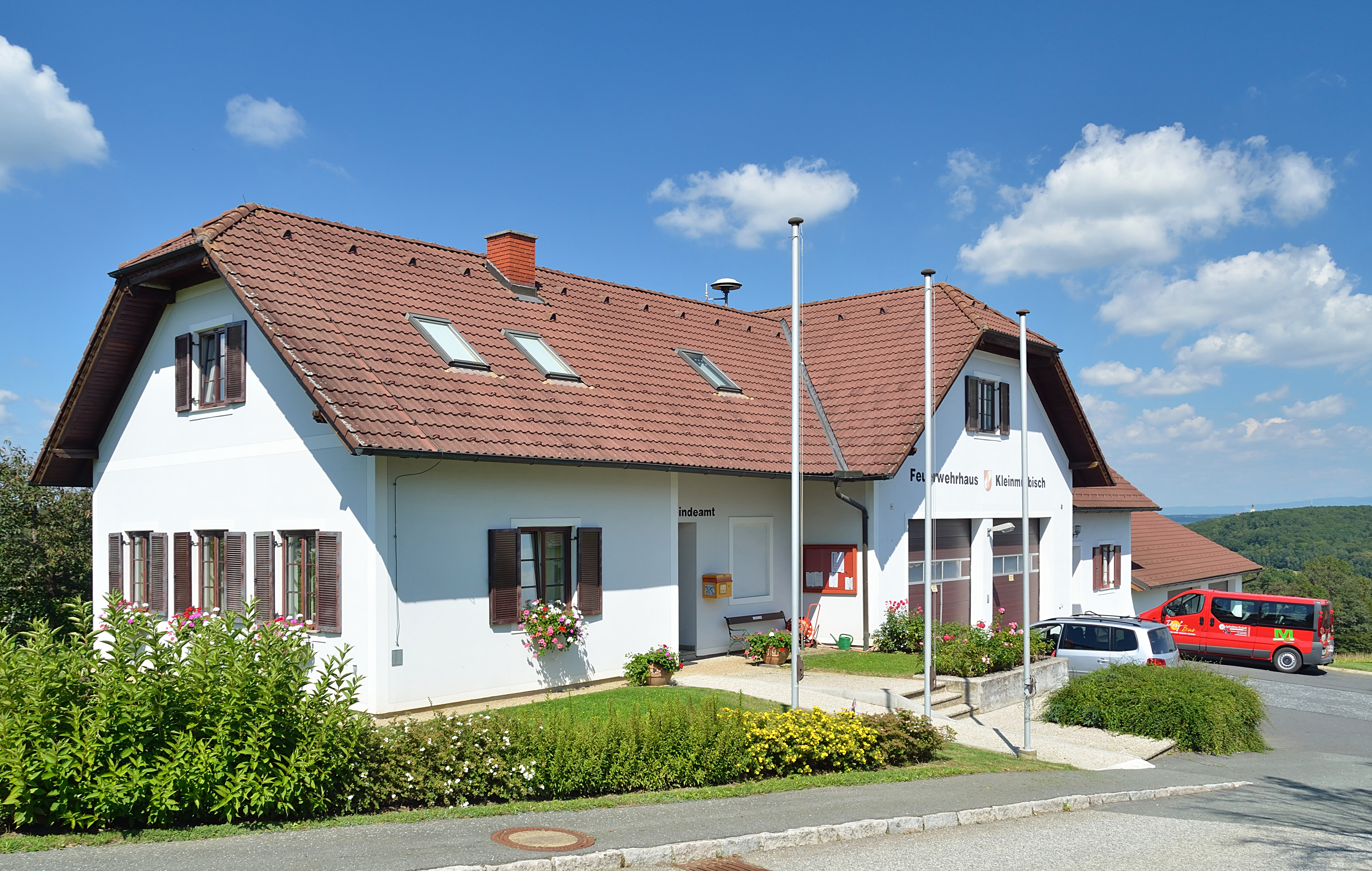 Municipal office and fire station Kleinmürbisch